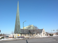 A picture of St. Thomas, Neenah-Menasha, Wisconsin taken from the southeast of the building.